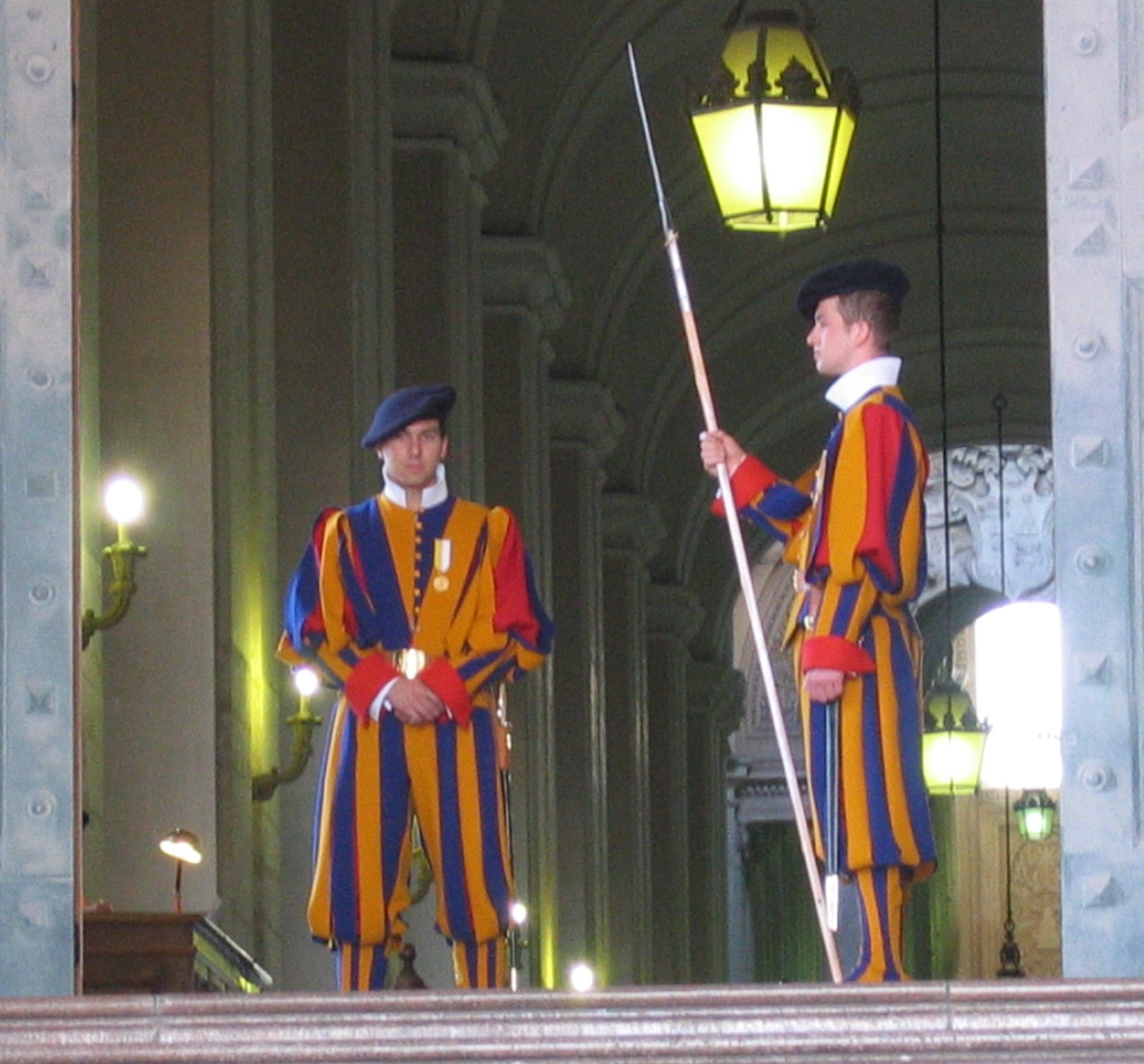 Members of the Pontifical Swiss Guard at the Prefettura Pontificia in Vatican City. This photograph was taken by Eva db on 7 April 2006.